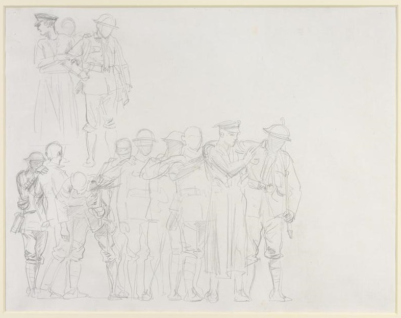 Study for 'gassed' line of wounded men with medical orderly image: a study of the second line of gassed British infantrymen as depicted in the oil painting 'Gassed'. The line is made up of eight gassed soldiers led by a medical orderly, one of the rearmost soldiers leaning over to vomit. In the top left is a study of a medical orderly holding the right arm of a gassed soldier.